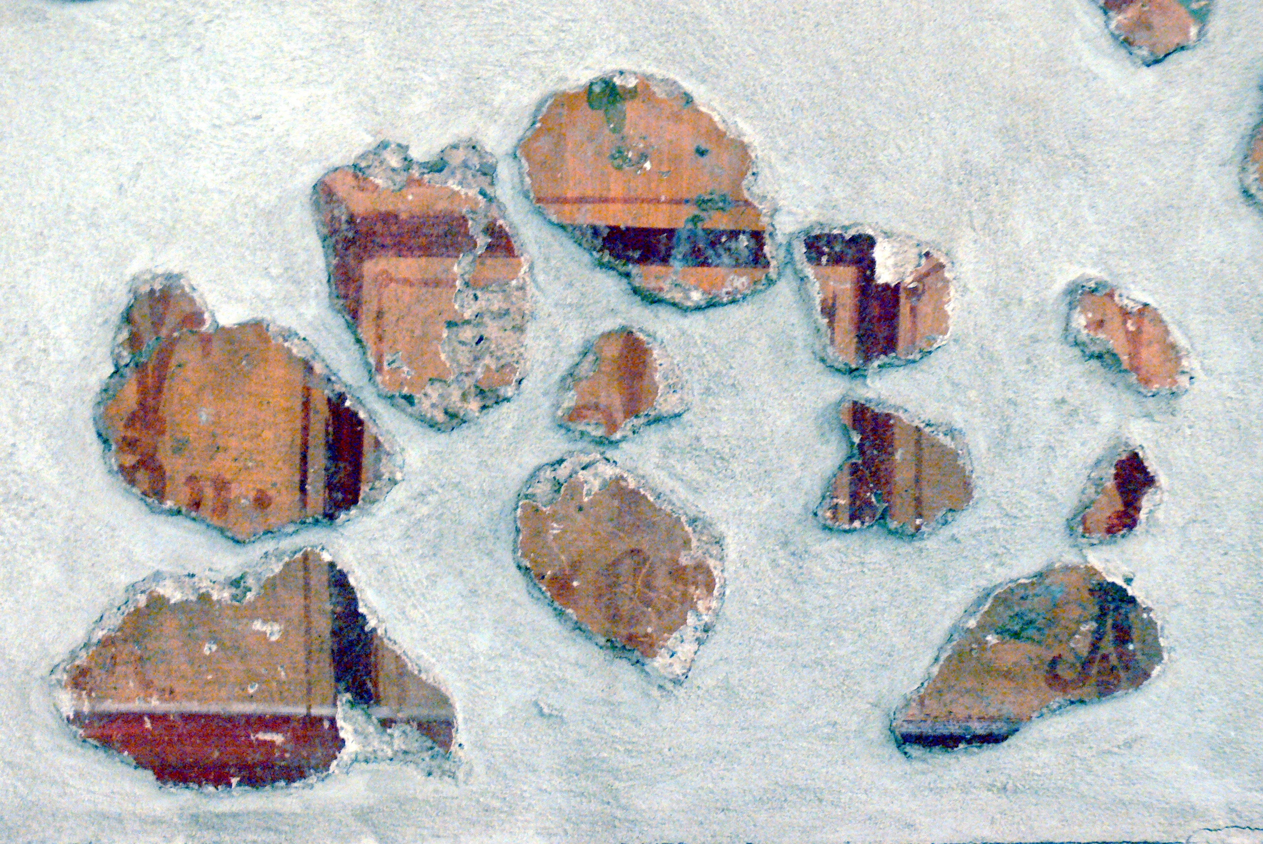 Enns ( Upper Austria ). Museum Lauriacum: Fragments of wall painting ( 2nd/3rd century AD ) from the ancient Roman civil settlement ( Stadelgasse ).